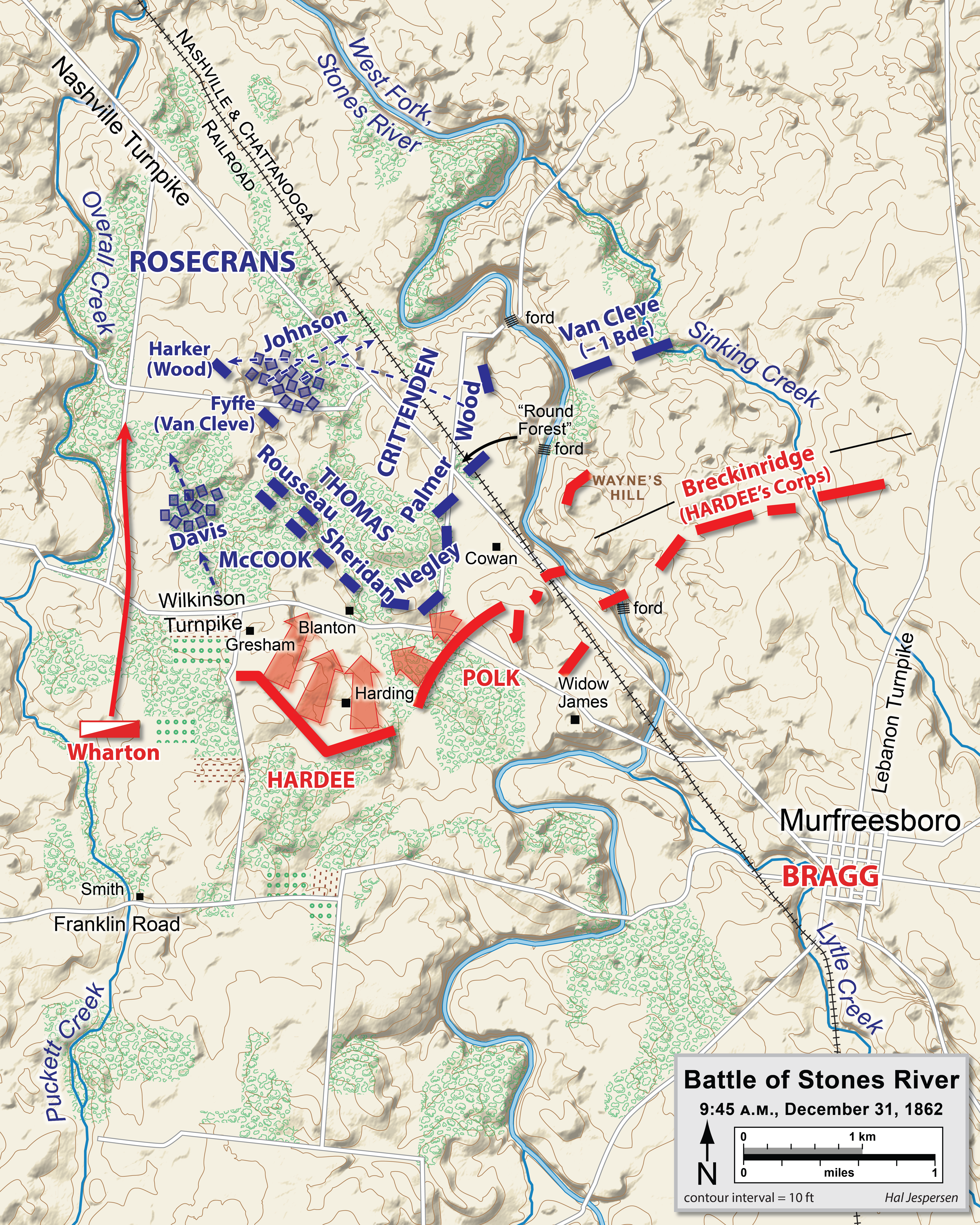 Map of the Battle of Stones River of the American Civil War, actions at 09:45, December 31, 1862.